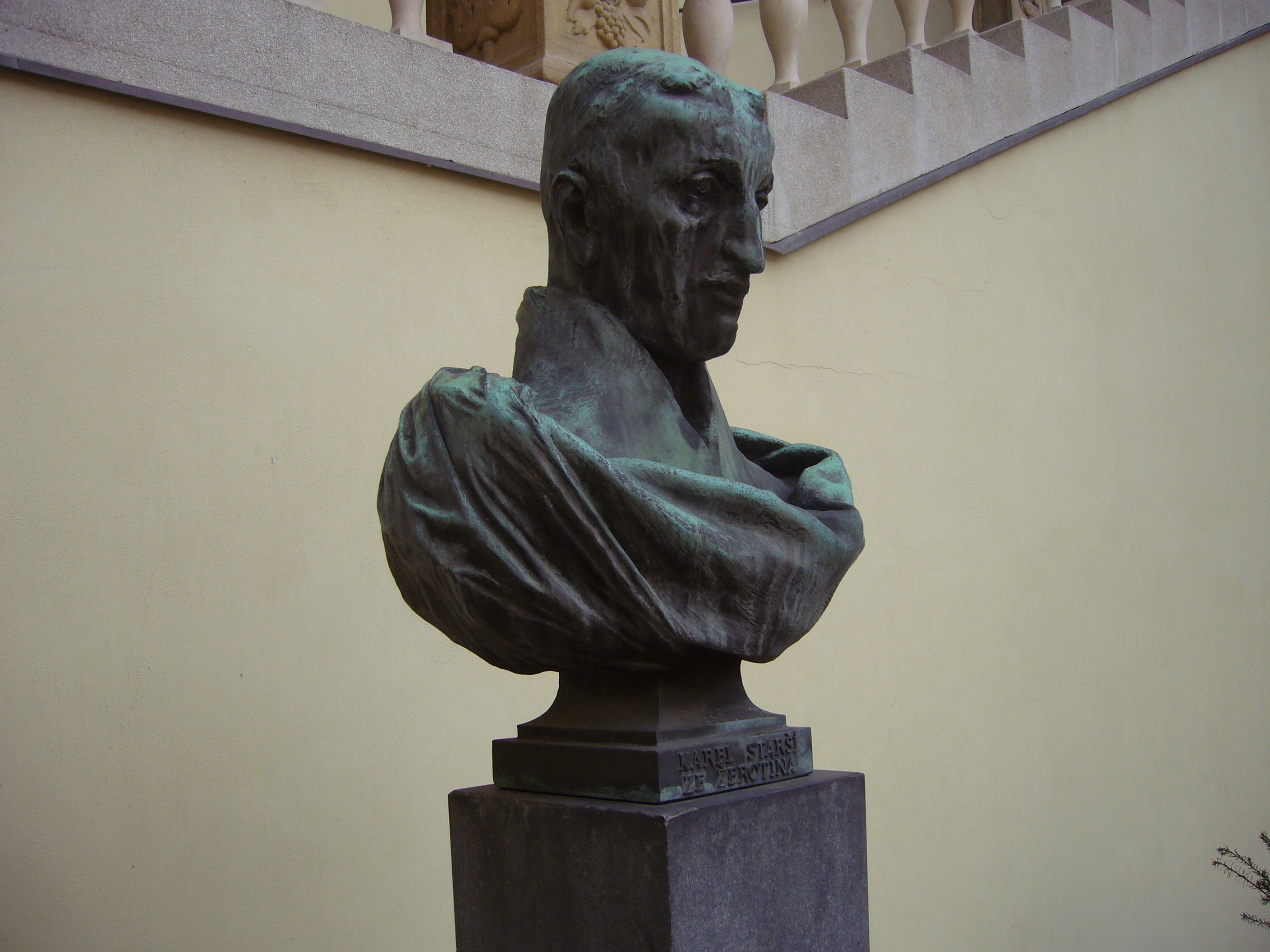 Bust of Karel st. ze Žerotína by Vincenc Makovský at the courtyard of the New Town Hall in Brno